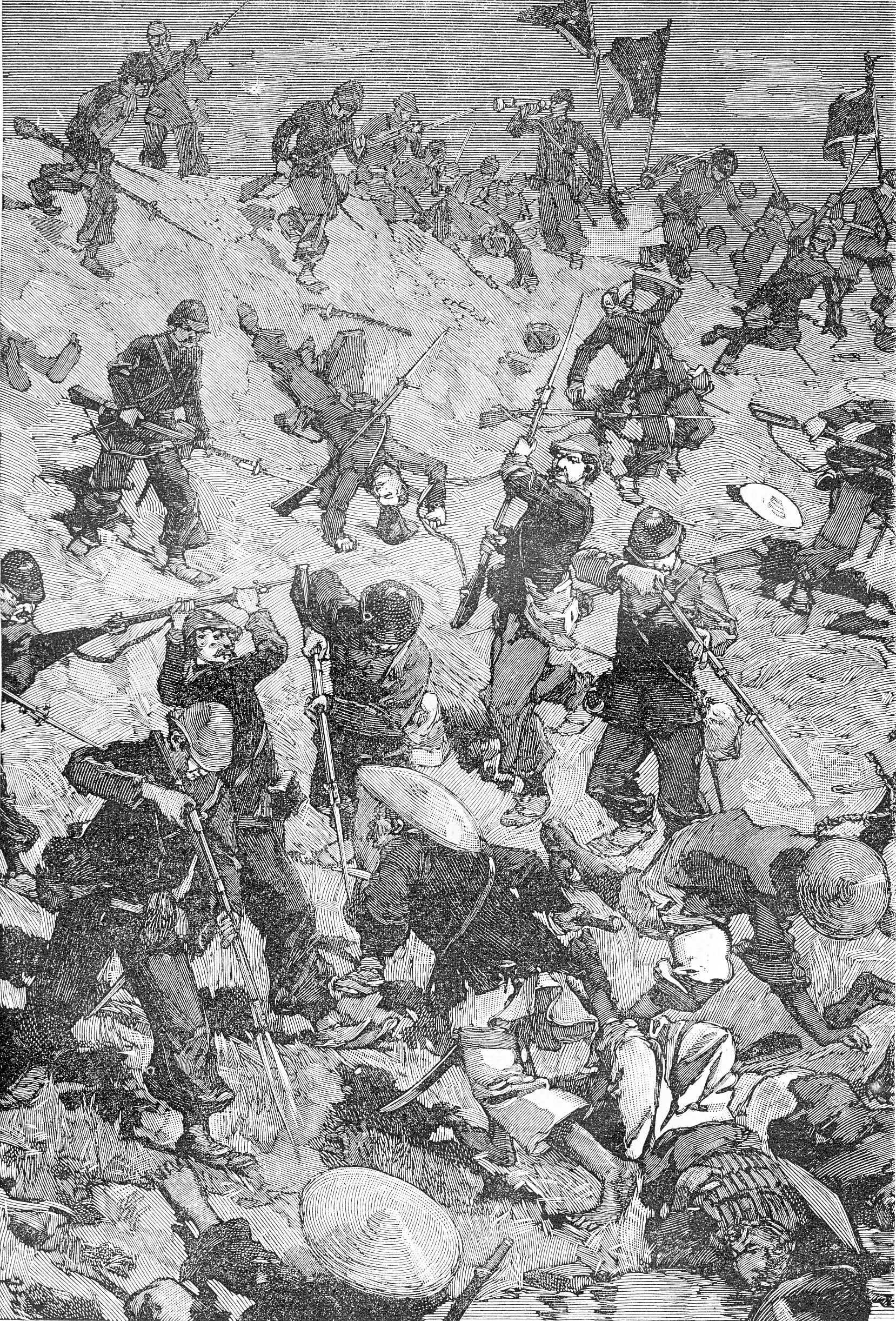 Captain Taccoën's marine infantry company attacks Black Flag positions during the Battle of Palan, 1 September 1883